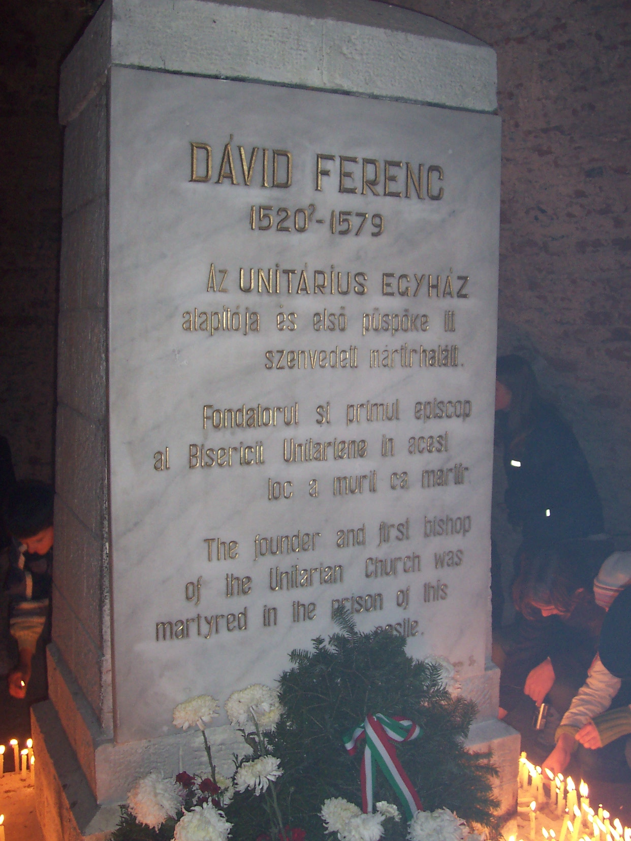 Memorial tablet of Ferenc Dávid in Fortress of Deva